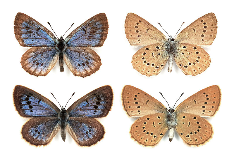 The plate showing Phengaris teleius male (up) and female (down). The photo is taken from Aca Đurđević’s collection (Serbia, Aleksandorvac). Specimens originate from Serbia, Ludaš lake.